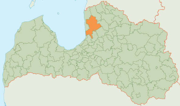 Map of Limbaži municipality, Latvia